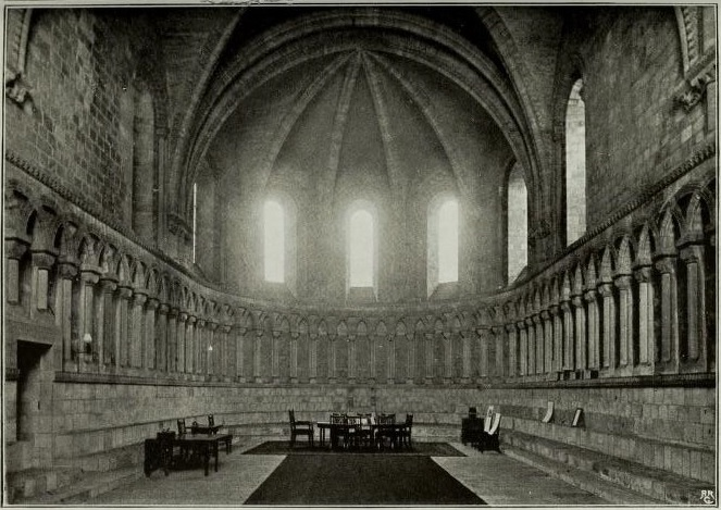 See title